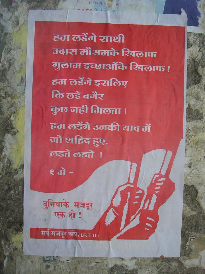 IFTU 1 maj affisch, Mumbai 2004. Foto: Soman